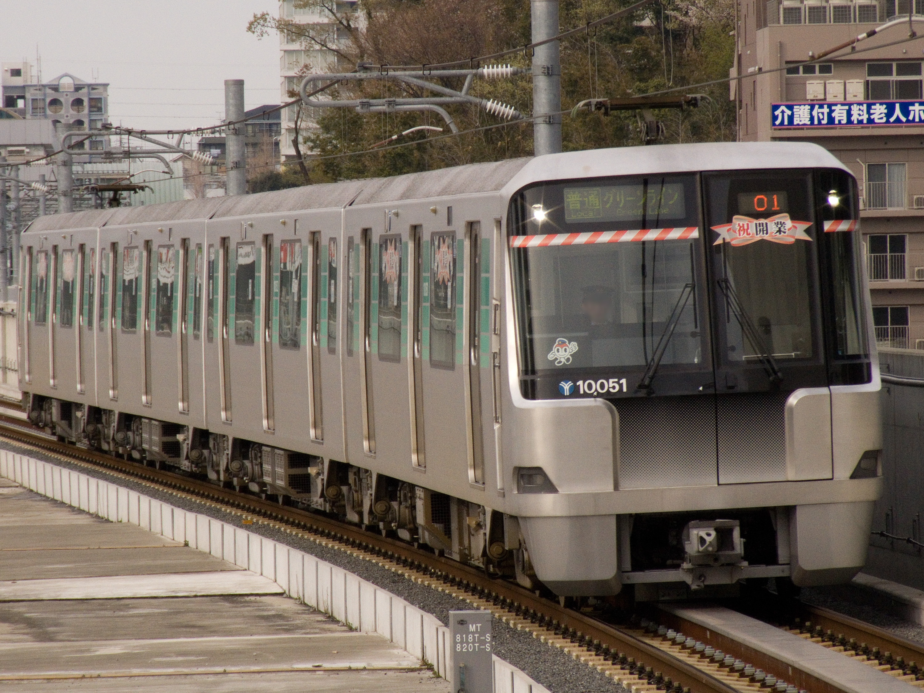 10000 series EMU set number 11 on the Yokohama Municipal Subway Green Line